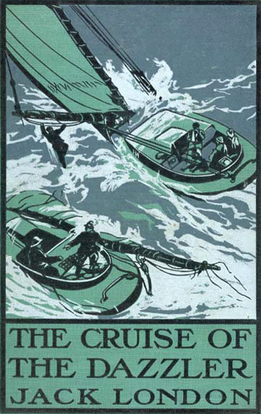 book cover for "The Cruise of the Dazzler", by Jack London (1902 ed)